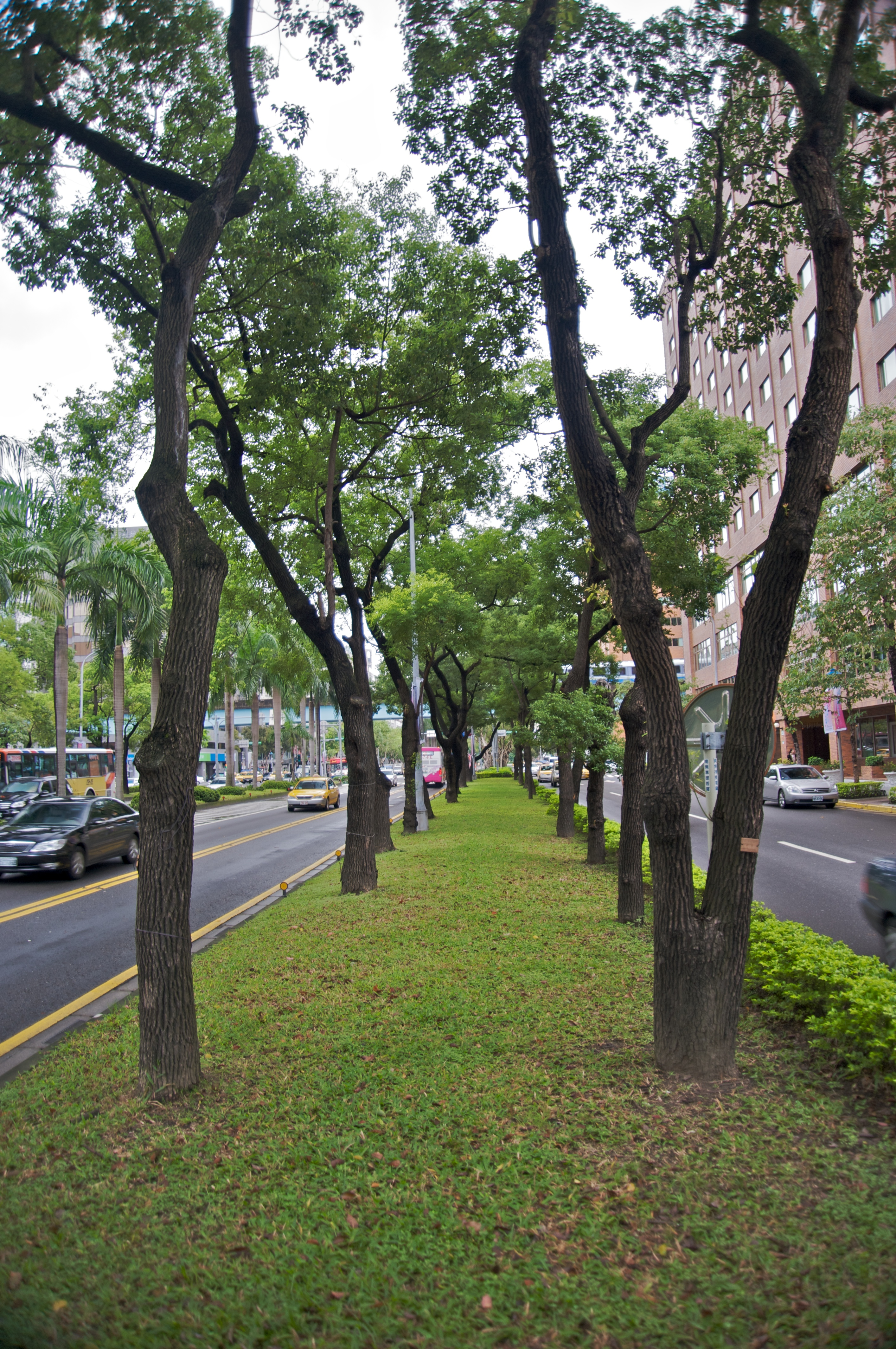 RenAi Road in Taipei, Taiwan